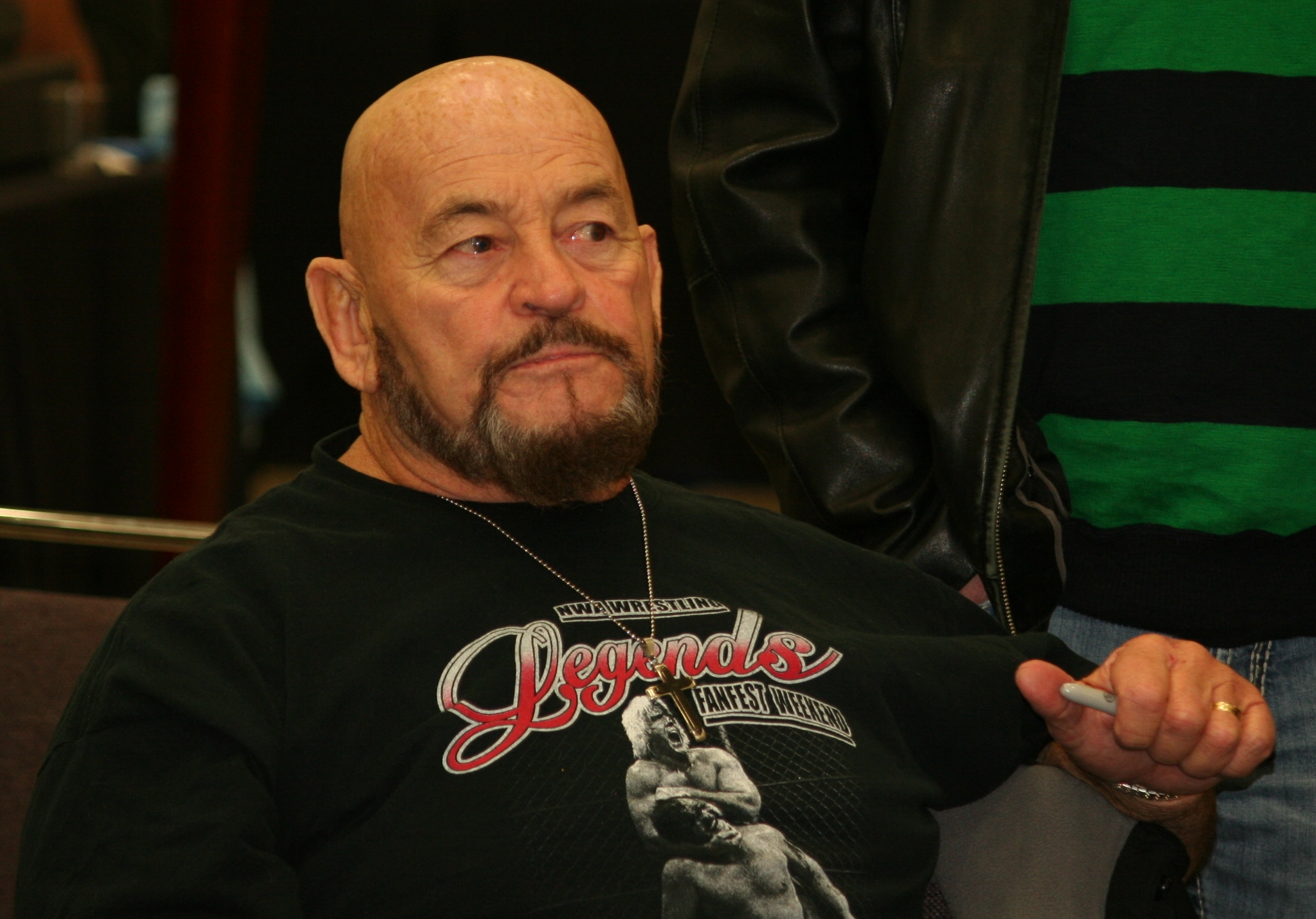 Ivan Koloff at Wrestlecade in Winston-Salem, North Carolina in November 2011.